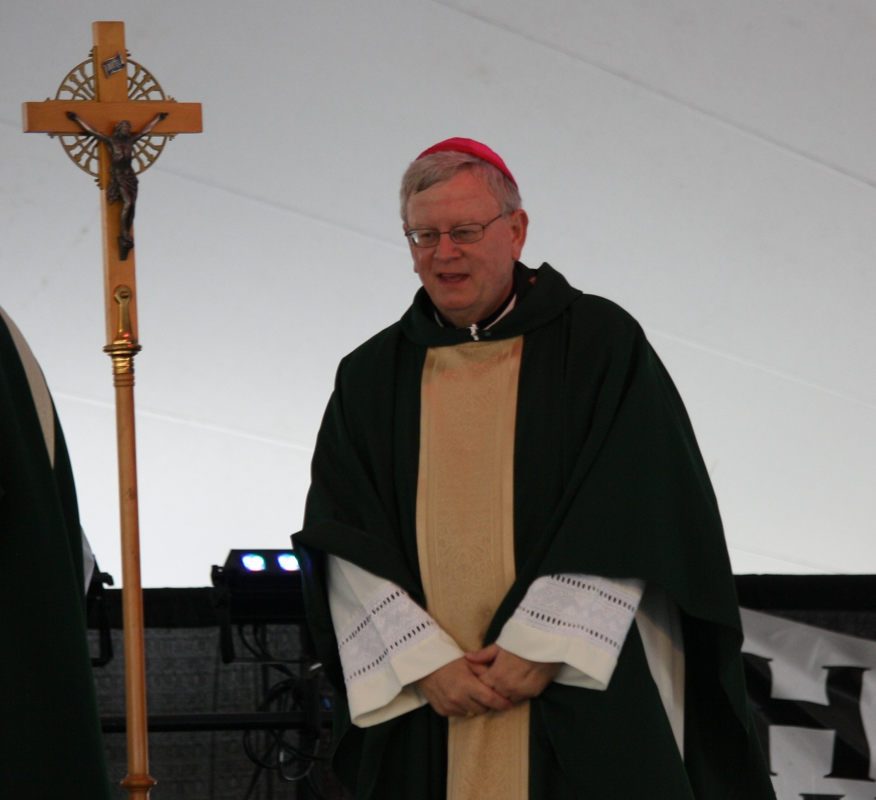 Roman Catholic bishop David Ricken preaching at Lifest 2012.